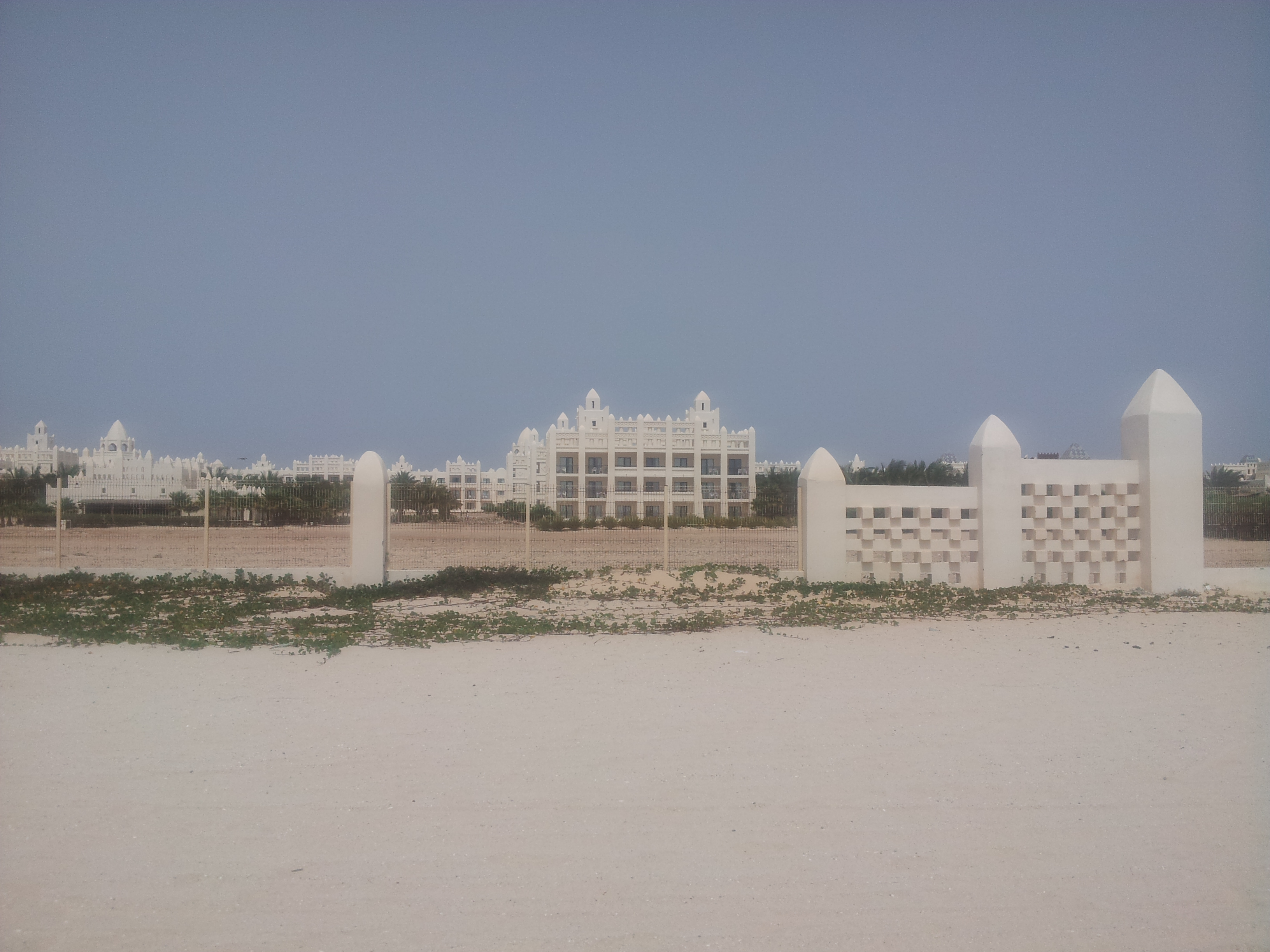 Clubhotel RIU Karamboa in Island Boa Vista (Cape Verde).